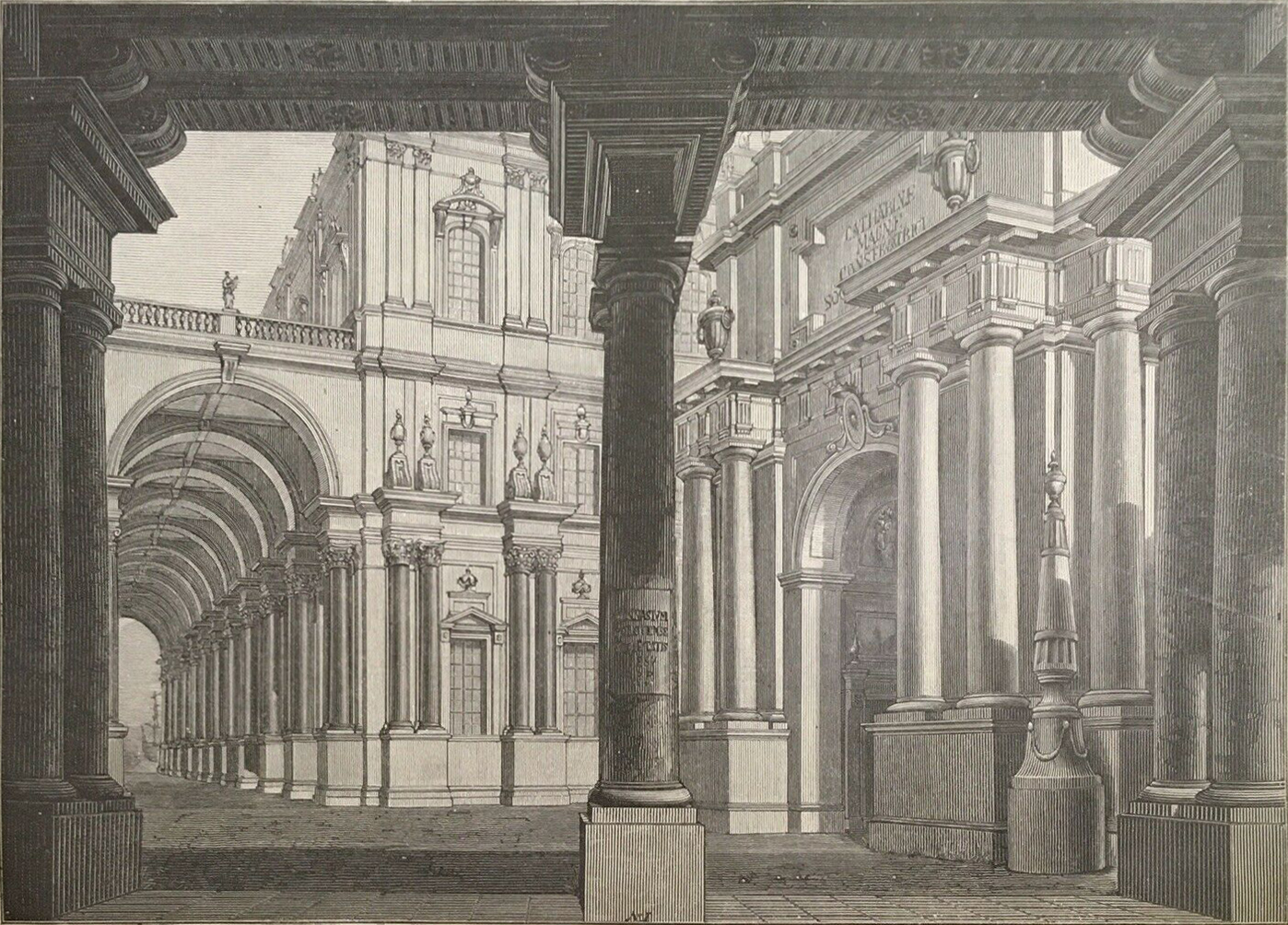 Jesuit College in Połacak, Belarus